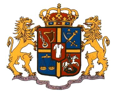 Blason de la Maison royale des Bagrations Coat of Arms of the Bagrationi Royal House